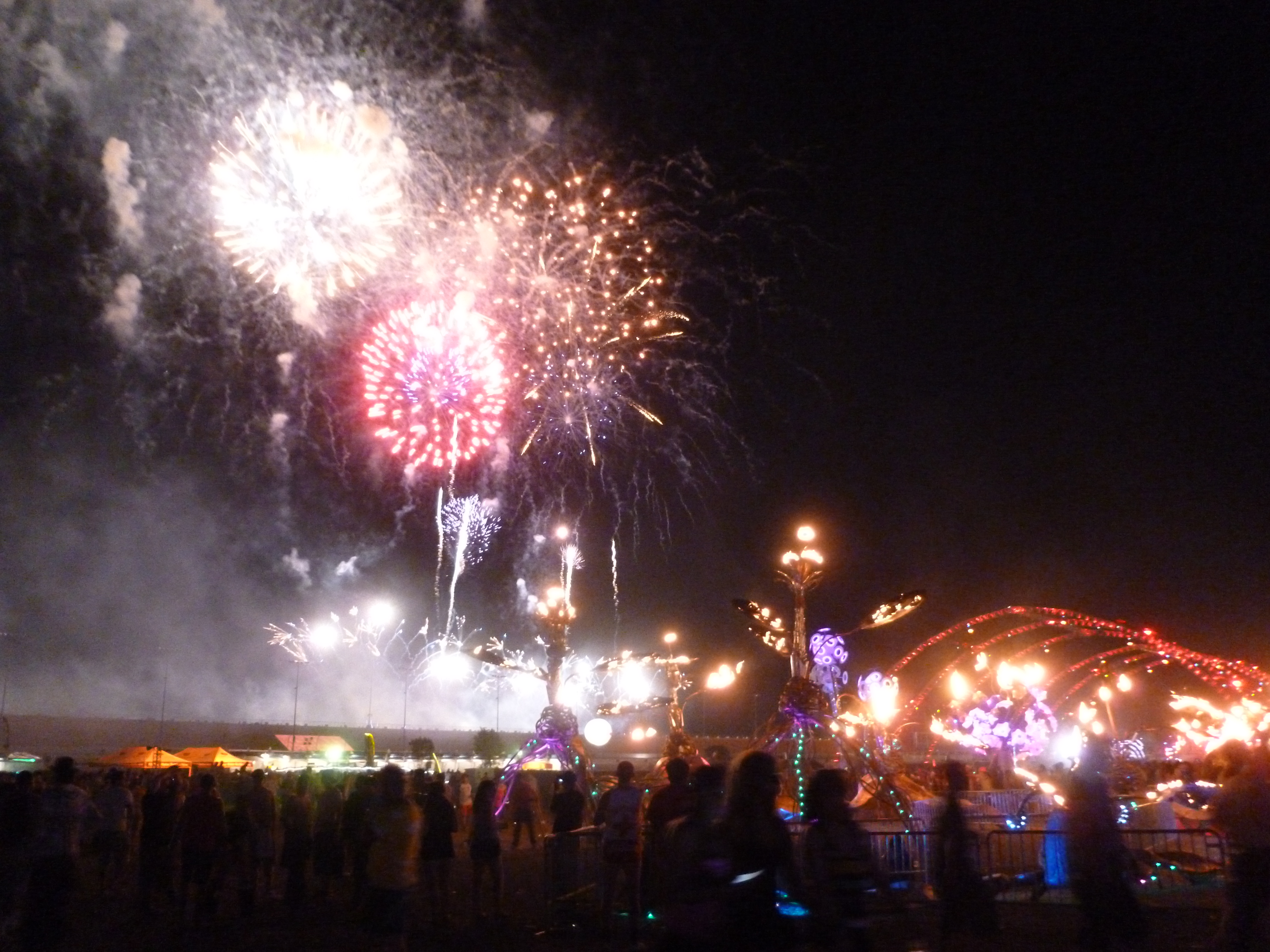 Fireworks at Electric Daisy Carnival 2011 in Las Vegas